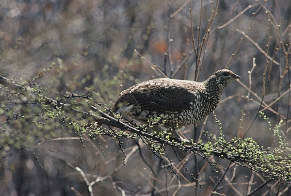 Larch Needles are principial Food before and during Egg-Laying Period.